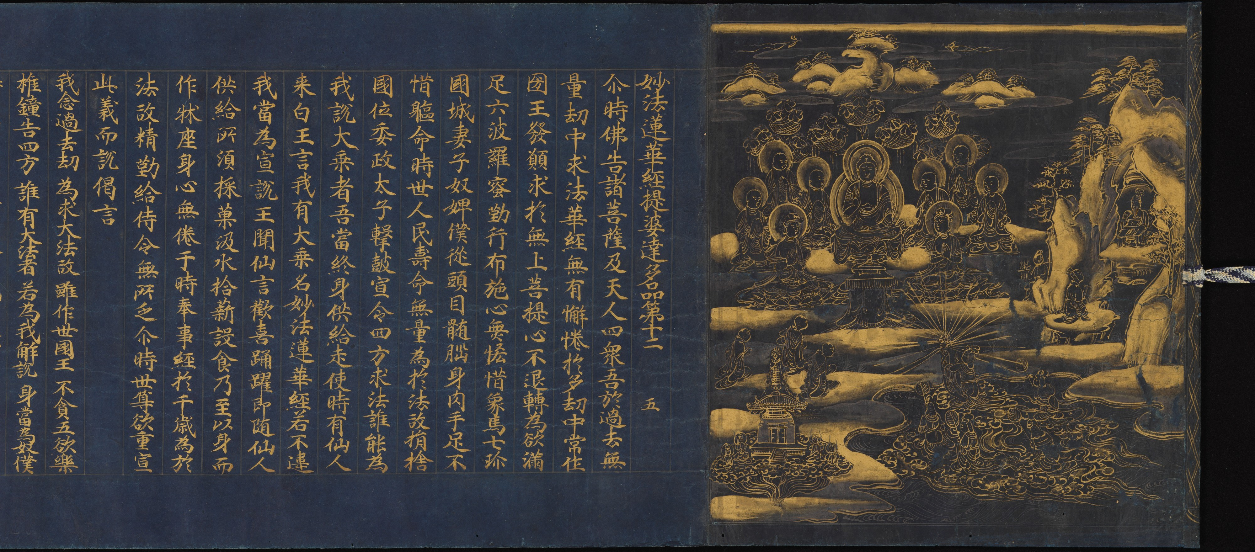 Scroll from a set of the Lotus Sutra (Hokekyō), Heian period, 12th century, Japan, handscroll; gold and silver on indigo-dyed paper, 10 1/16 in. x 33 ft. (25.6 x 1005.8 cm), Metropolitan Museum of Art, accession 65.216.1